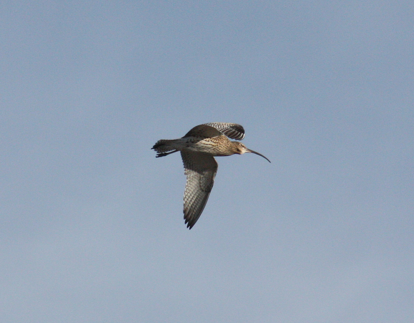 Eurasian Curlew (Numenius arquata) in flight in Oulu, Finland.